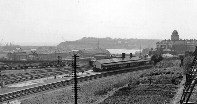 Barry Docks Station. View southward; Docks and Barry Island beyond station. The railway comes from Penarth and Cardiff to left (also via Cadoxton from Pontypridd until 10/9/62). To the right it goes to Barry Island, also Bridgend until closed on 15/6/64 -- but was reopened to Bridgend on 10/6/2005.